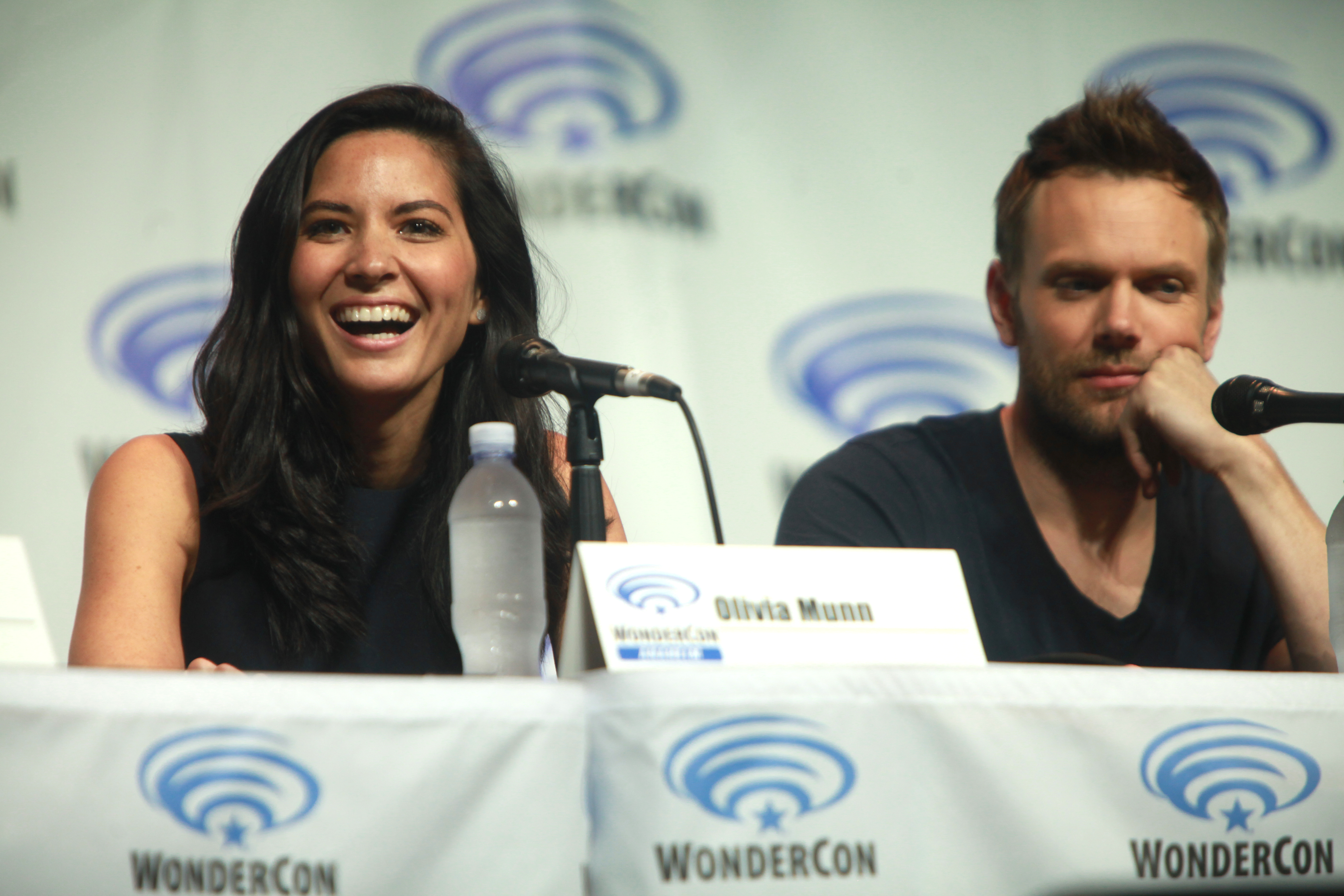 Olivia Munn and Joel McHale speaking at the 2014 WonderCon, for "Deliver Us from Evil", at the Anaheim Convention Center in Anaheim, California.